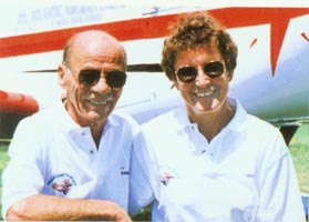 I am the copyright holder and I release this into the public domain.